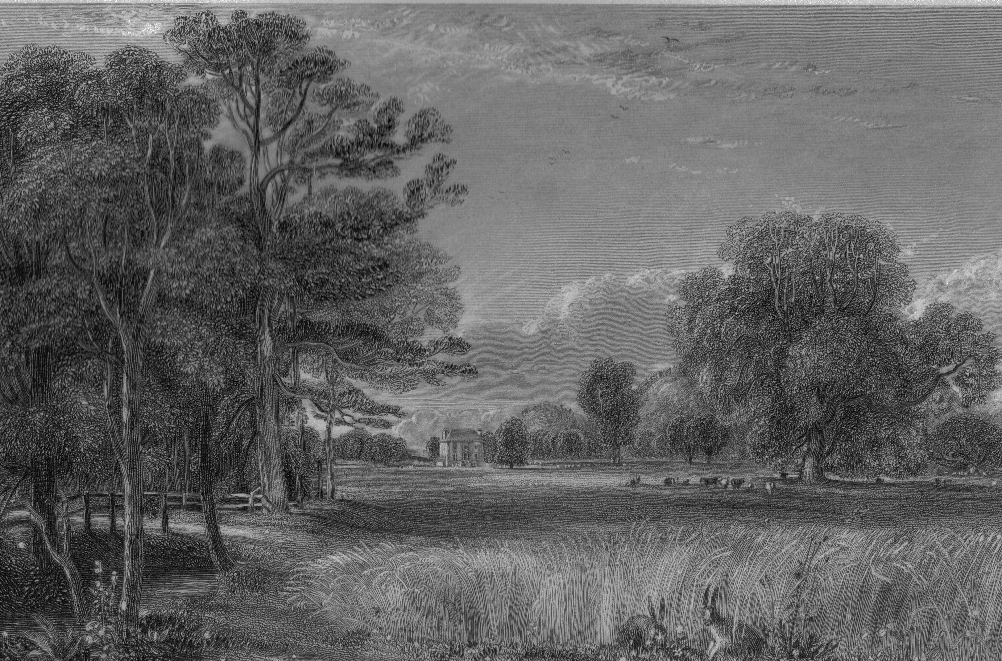 Friars' Carse House in 1840, Dumfries & Galloway, Scotland.